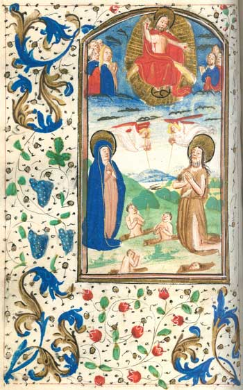 Miniature from a Brabant manuscript, ca. 1460 The resurrection of the dead Formerly Abbey of Berne, now in a private Dutch collection